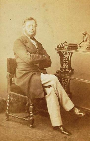 Joseph Cubitt, a civil engineer. Scan by the contributor of a photograph owned by the contributor. The photo is in an 1800s photo album of the great grandmother of the contributor. The contributor is not a relation of J Cubitt, but the contributor's great grandfather George Turnbull was a colleague of Cubitt.